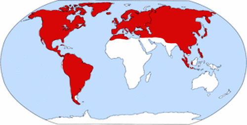 Distribution of the genus Bombus, the bumblebees. Based on the Bombus data at the Natural History Museum